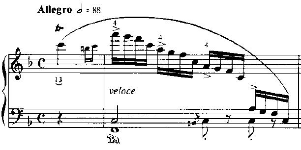 Excerpt form the beginning of the Étude Op. 10 No. 8 by Fryderyk Chopin.